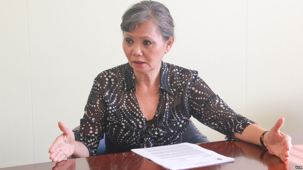 លោកស្រី មូរ សុខហួរ តំណាងរាស្ត្រ​មក​ពី​គណបក្ស​សង្គ្រោះ​ជាតិ សន្ទនា​ជាមួយ​នឹង​លោកស្រី Amanda Bennett នាយិកា​សម្លេង​សហរដ្ឋ​អាមេរិក អំពី​ទស្សនៈវិស័យ​របស់​ប្រទេស​កម្ពុជា នៅ​ទីស្នាក់ការ​កណ្តាល​របស់ VOA នៅ​រដ្ឋធានី​វ៉ាស៊ីនតោន កាលពី​ថ្ងៃច័ន្ទ ទី៦ ខែមិថុនា ឆ្នាំ២០១៦។